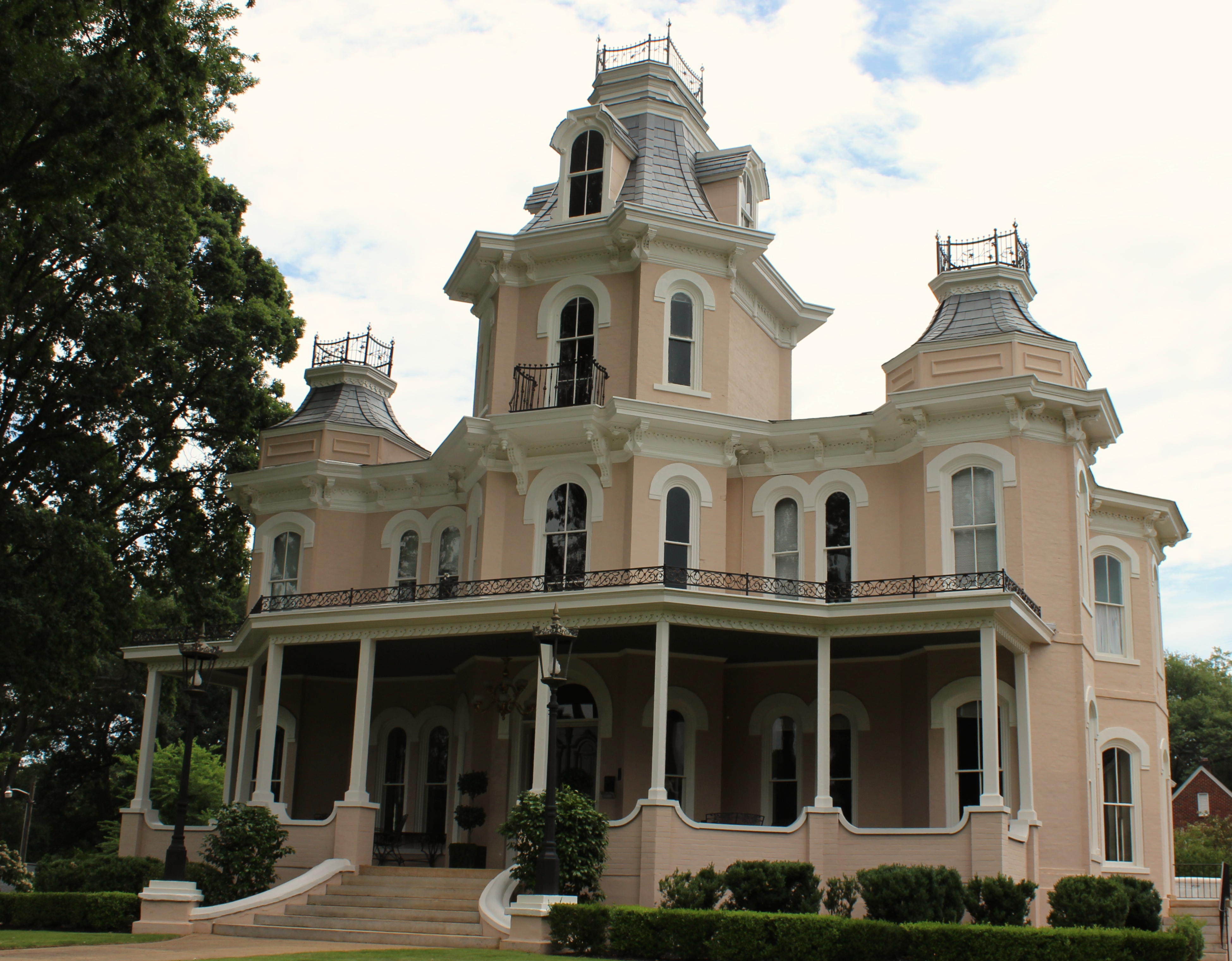 Lanneau-Norwood House, a historic home in Greenville, South Carolina, added to the National Register of Historic Places in 1982.